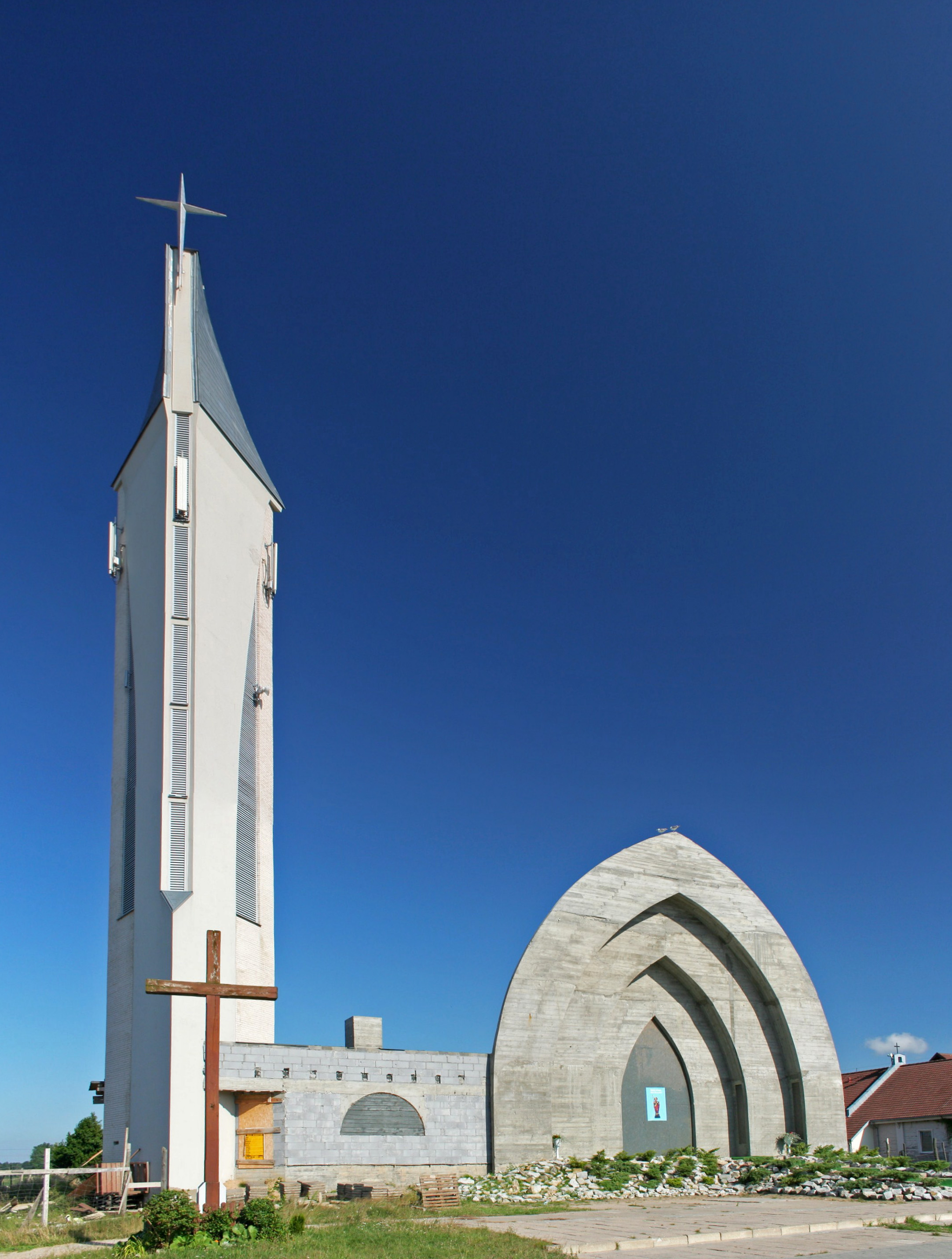 Church of St. James in Łeba.